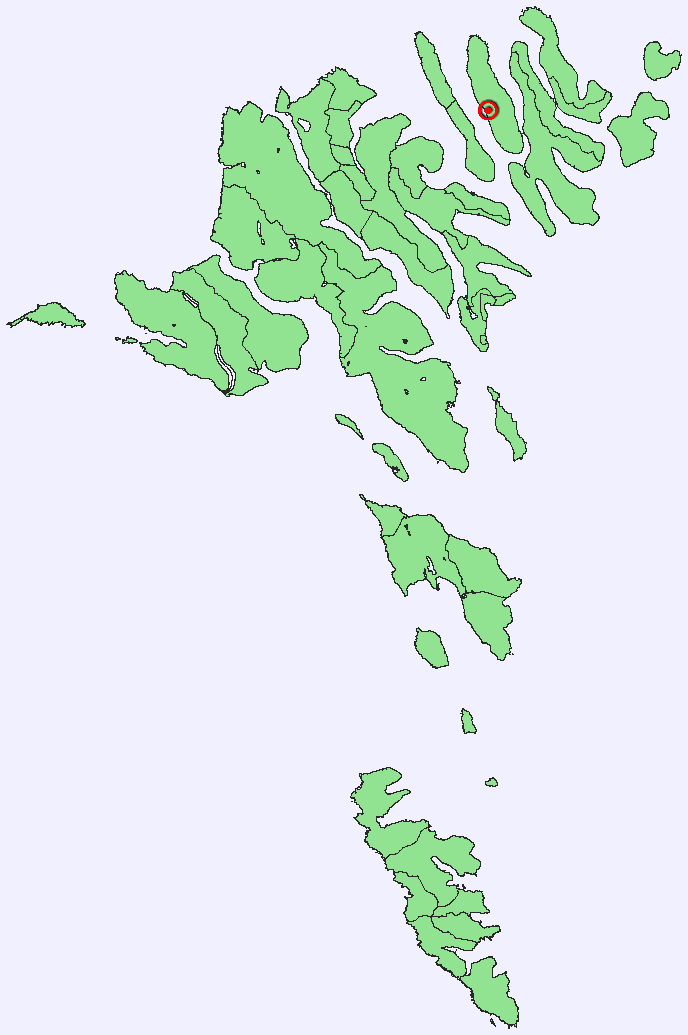 Position of Kunoy bygd in the Faroe Islands